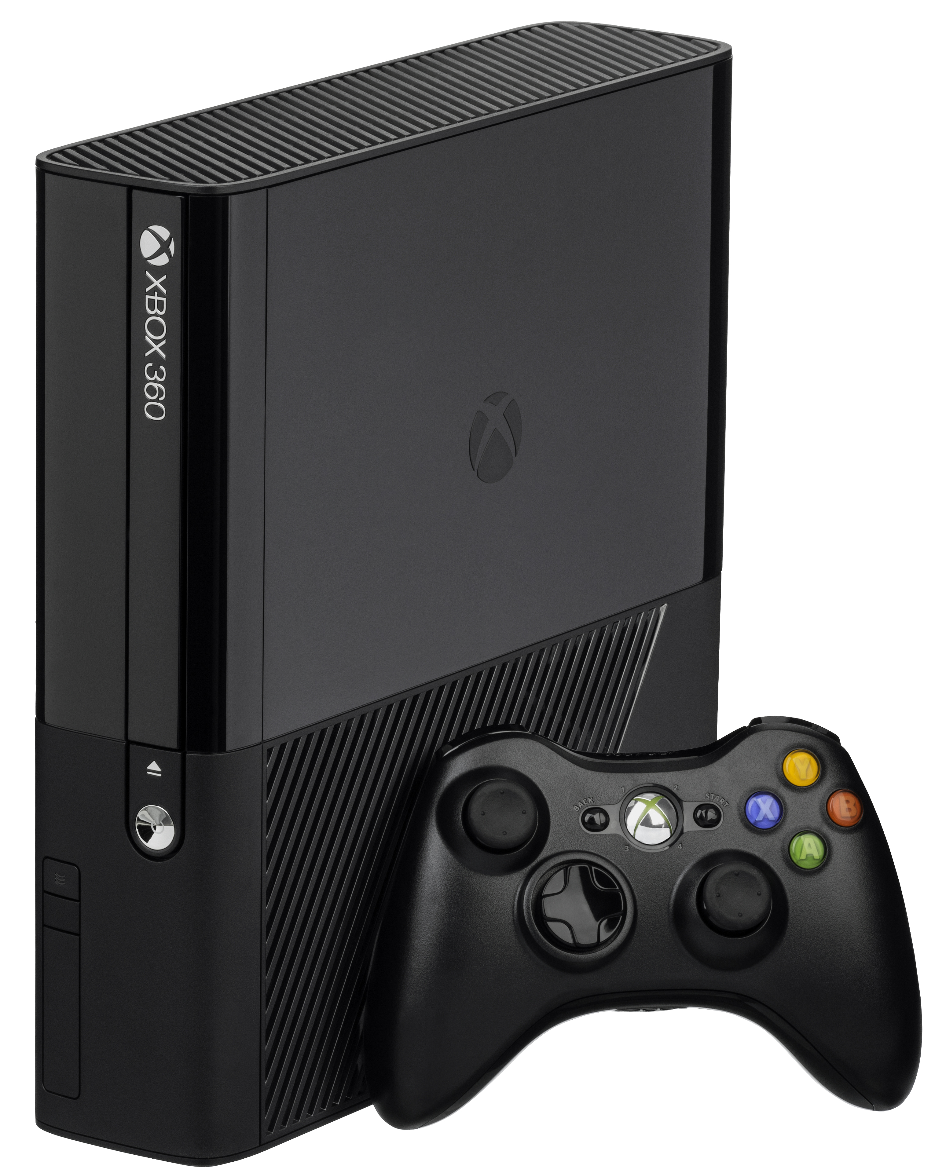 The Xbox 360 E, a seventh generation gaming console from Microsoft. The E model is the third design in the Xbox 360 series, coming after the "Slim" and the original design. It was revealed during E3 in June 2013, shortly after the Xbox One announcement. The redesign was meant to bring synergy to the new Xbox One platform and the still-supported 360. It does this by featuring many design aesthetics of the Xbox One, all of which are cosmetic as the hardware itself features no differences from the previous Slim model.